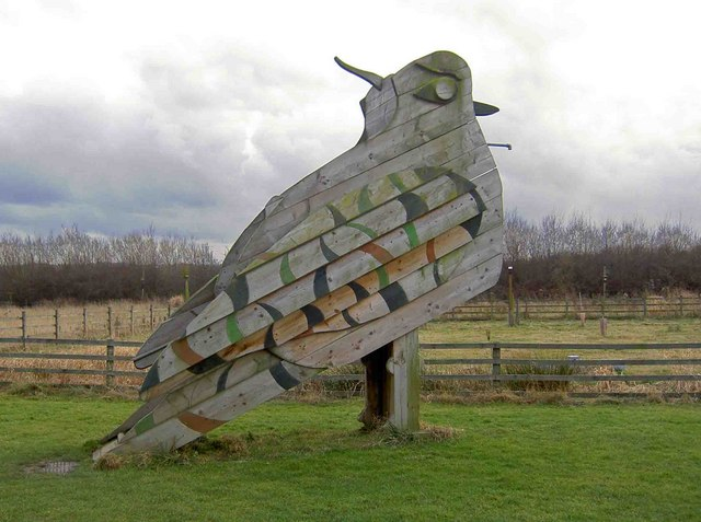 Tweet tweet! Spotted at RSPB Old Moor.